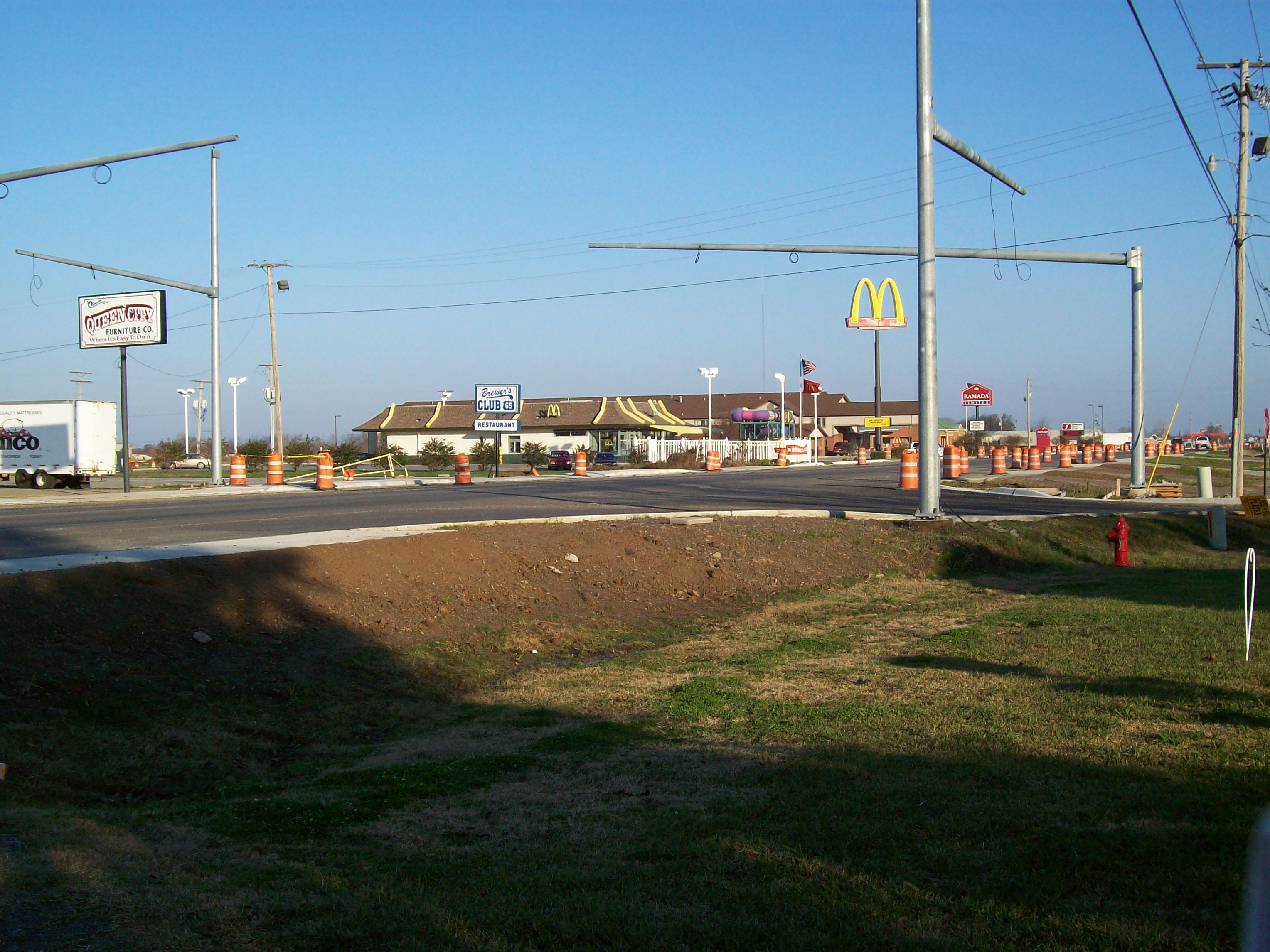 Picture of new stoplight in lake village, ar.